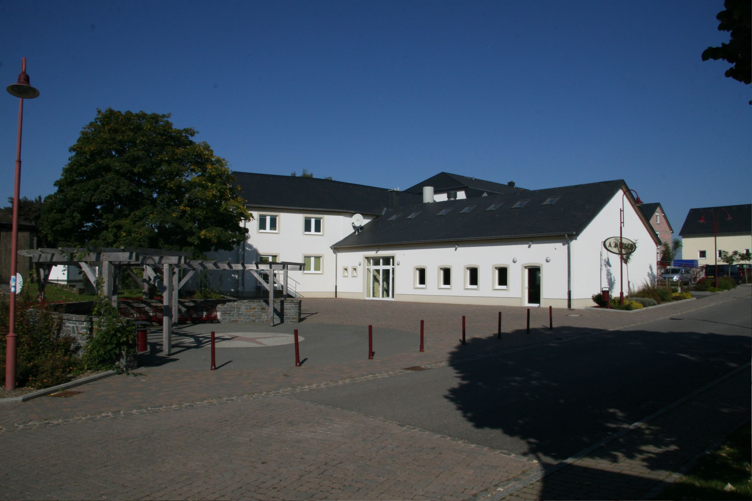 The cultural centre "A Meesch" in Wahlhausen, Luxembourg.